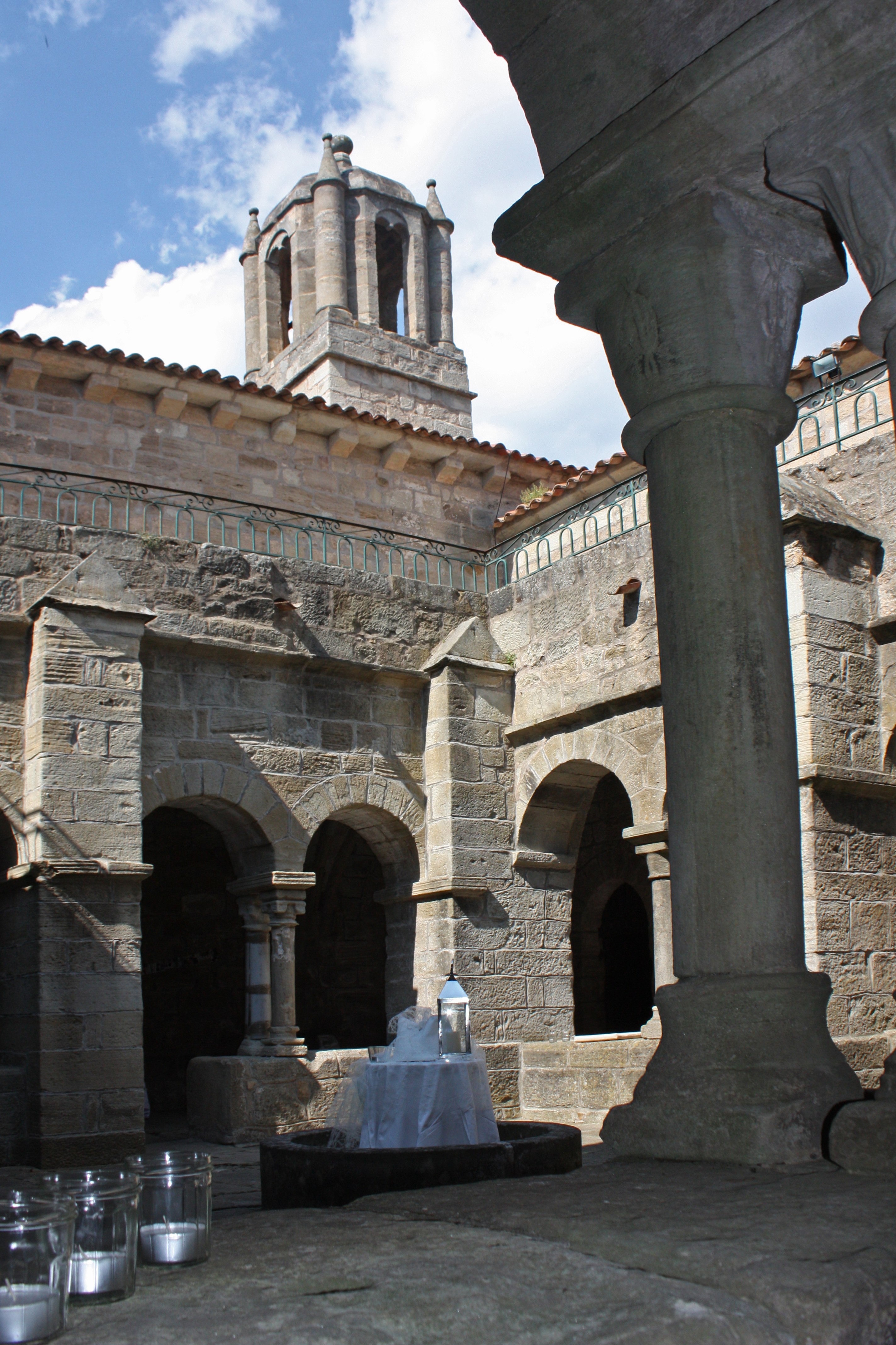 Cloister and church steeple.